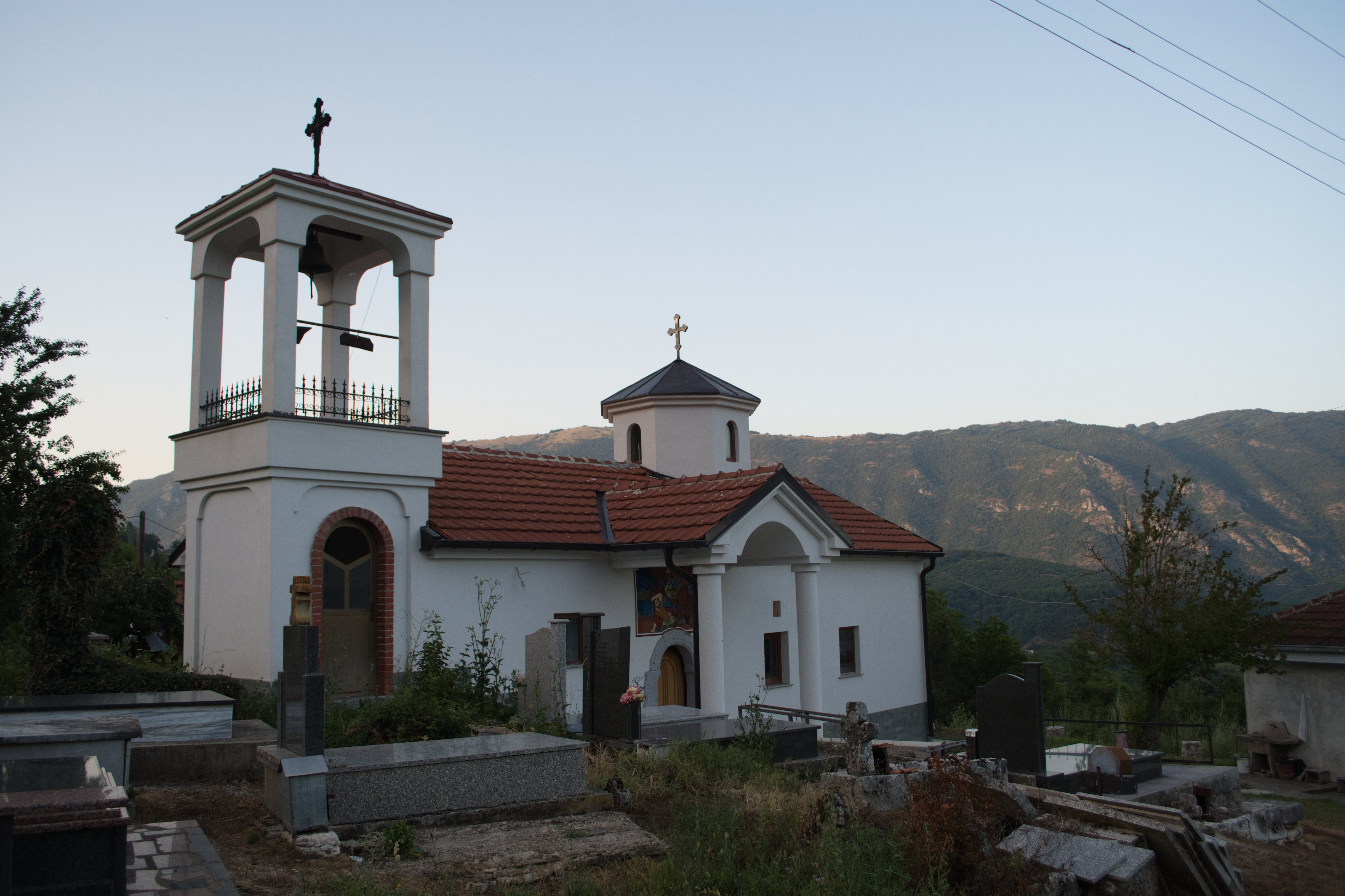 St. Demetrious Church in the village of Bezovo